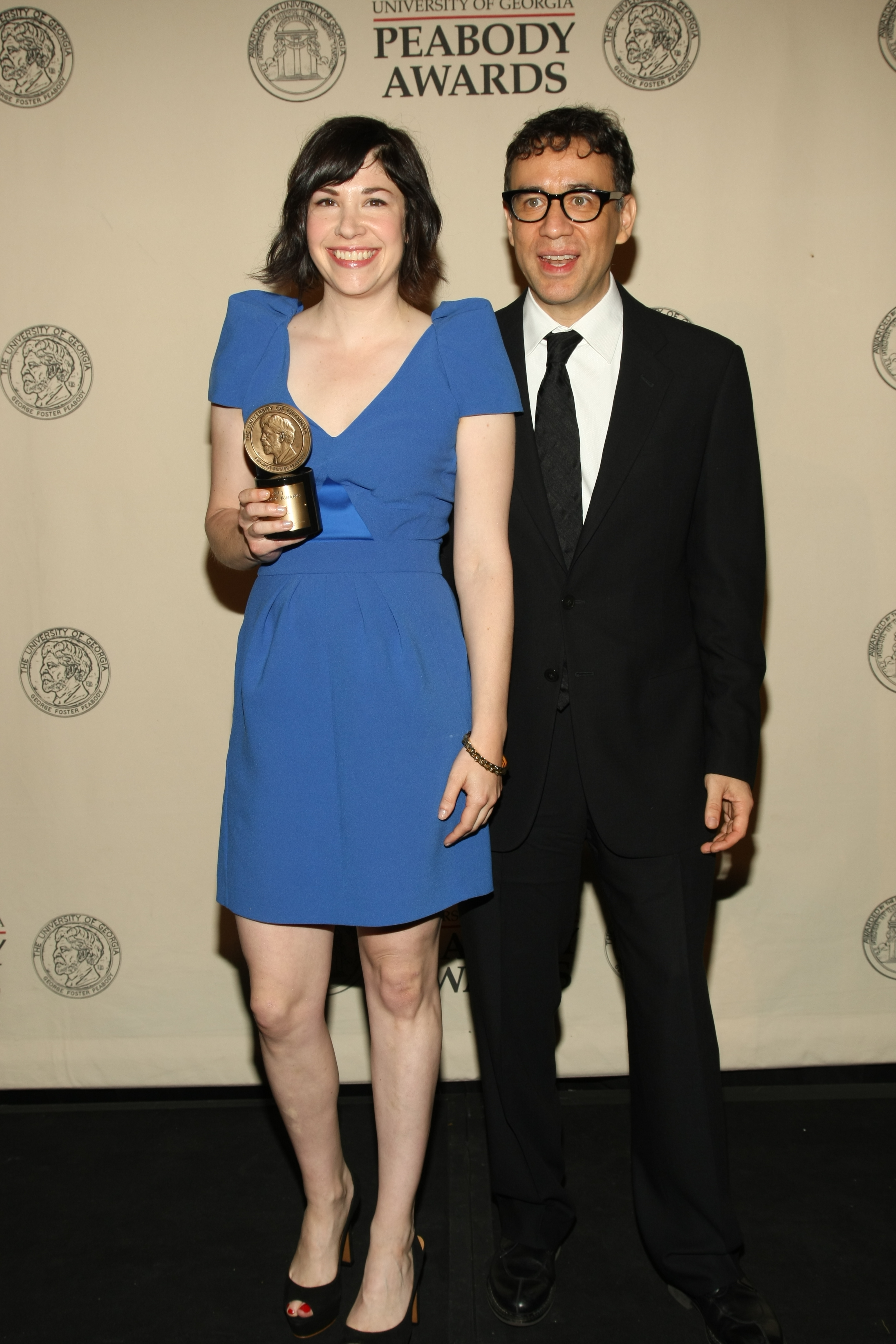 PHOTO CREDIT: ANDERS KRUSBERG / PEABODY AWARDS 71st Annual Peabody Awards Luncheon Waldorf=Astoria Hotel May 21, 2012